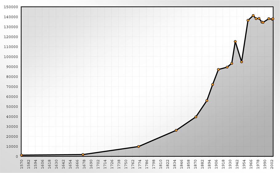 This image shows the population statistics of Darmstadt (Germany).